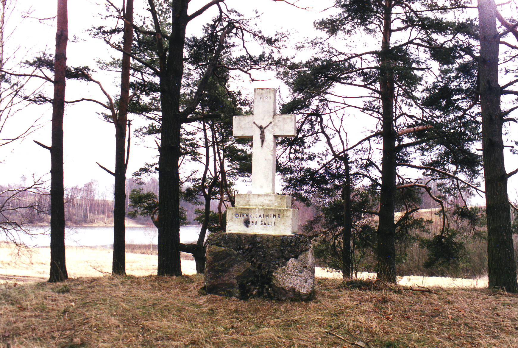 Juodupenai cemetery, Kretinga district, Lithuania